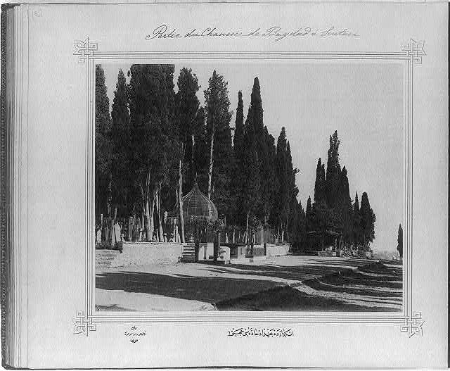 Baghdad Street in Üsküdar between 1880 and 1893